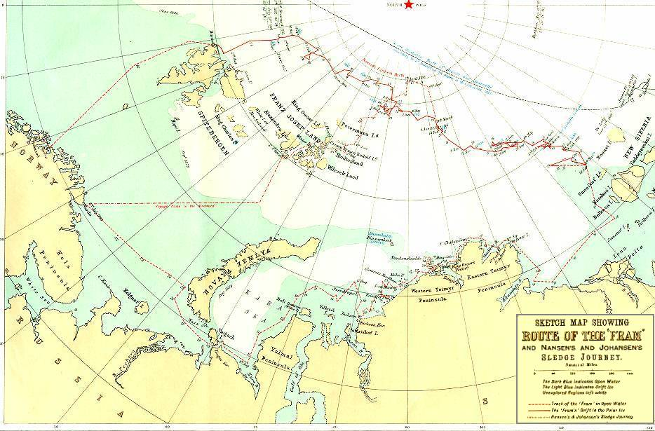 A map of the Arctic regions, showing the paths of the journeys made by Fridtjof Nansen and his ship, Fram, 1893–96.